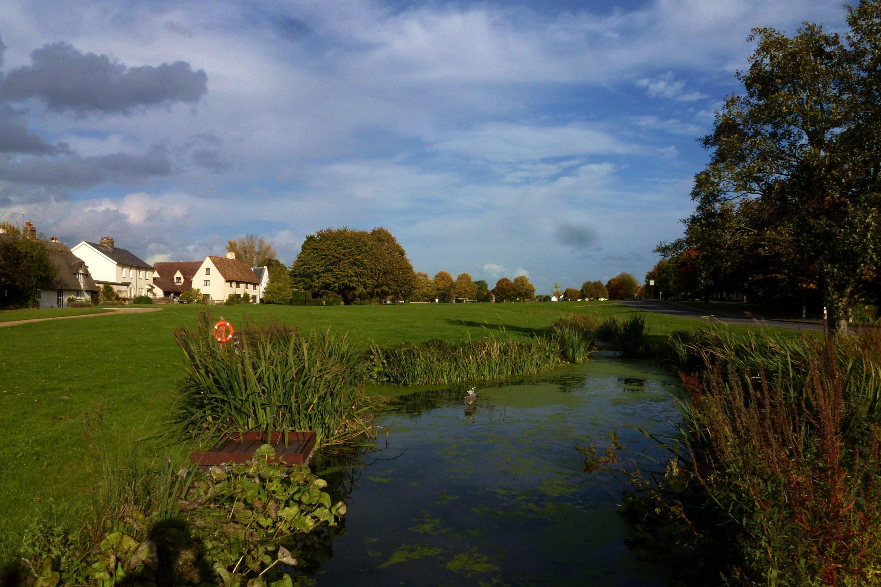 Pond and village green in Barrington, Cambridgeshire.